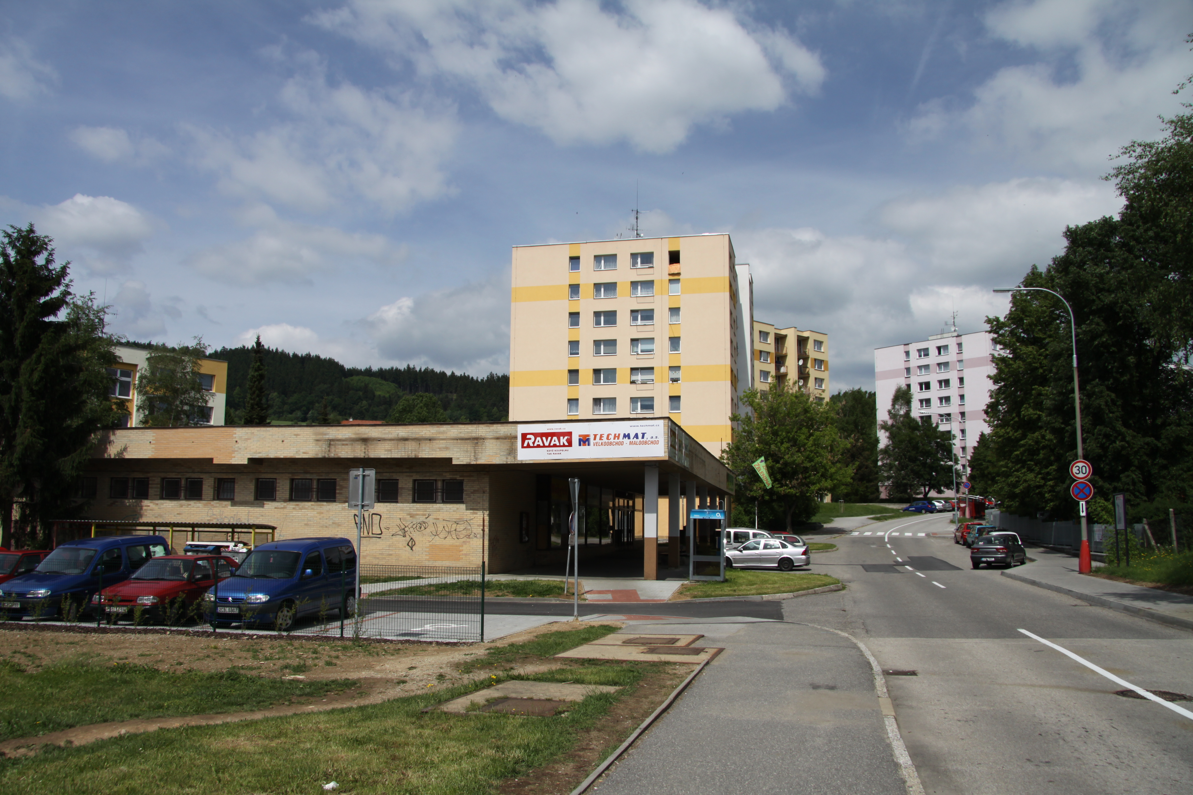 Česká street, Prachatice, Prachatice District, Czech Republic